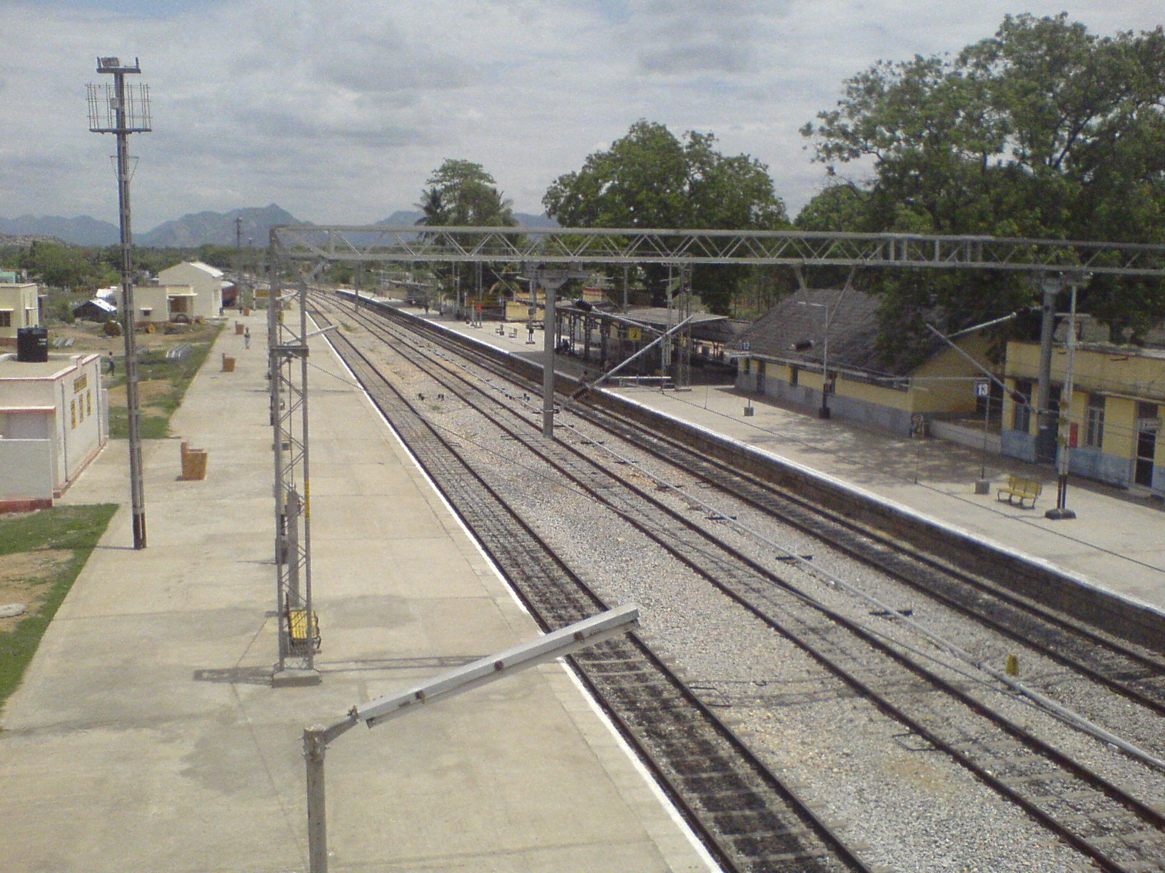 view captured from foot over bridge on 25th June 2007